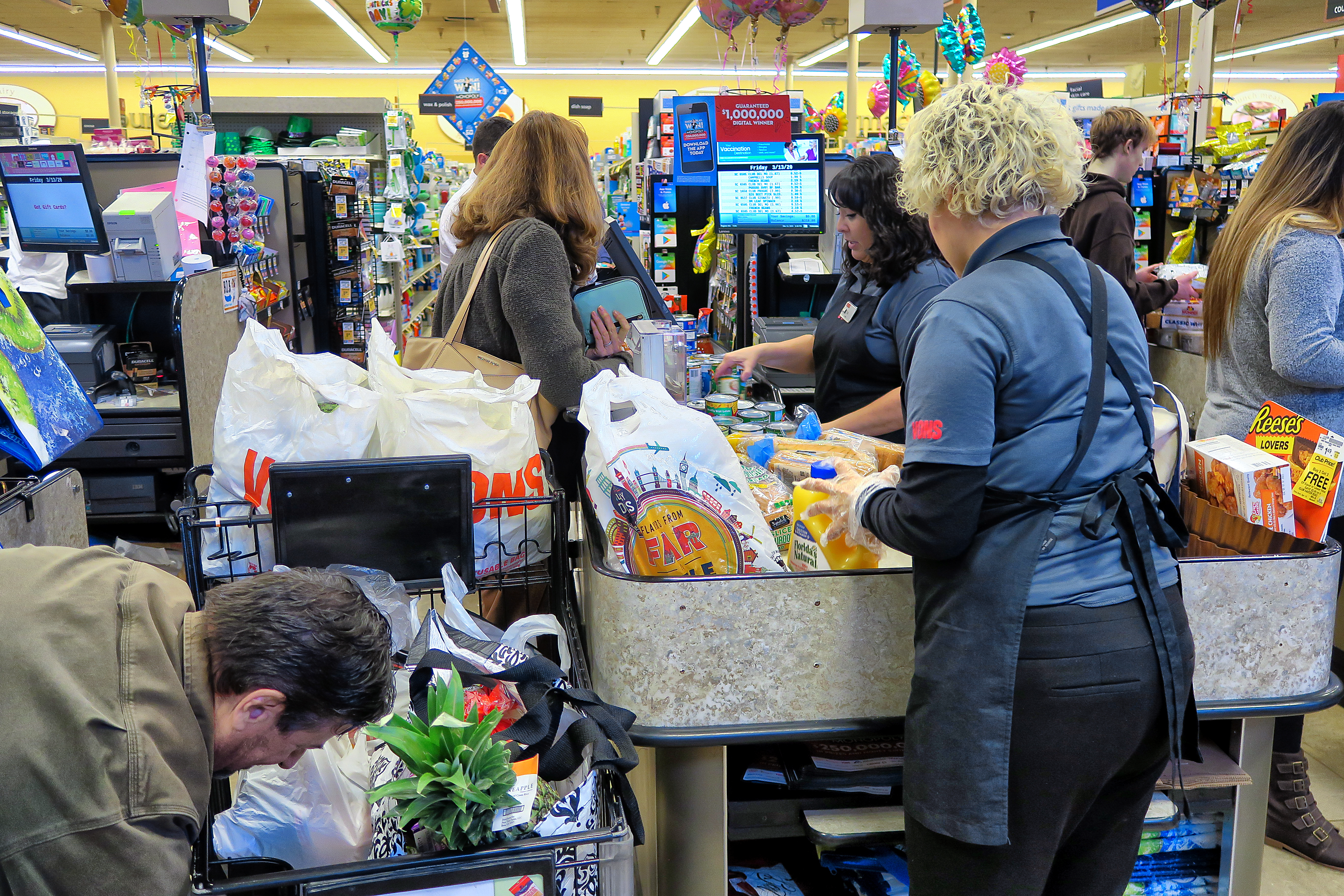 Long lines at a Vons market in Claremont, California